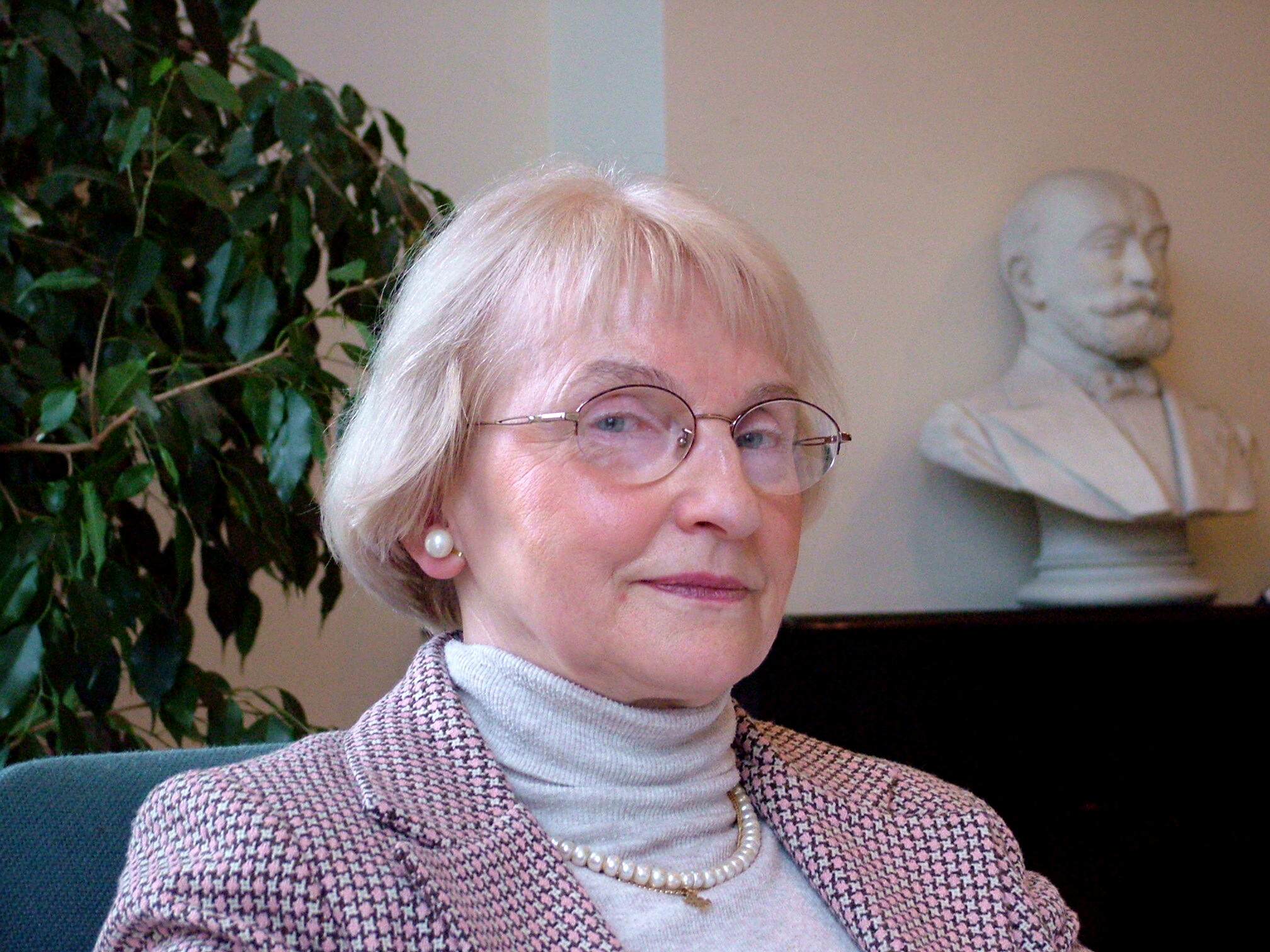 Barbara Pietrzak, General Secretary Universal Esperanto Association